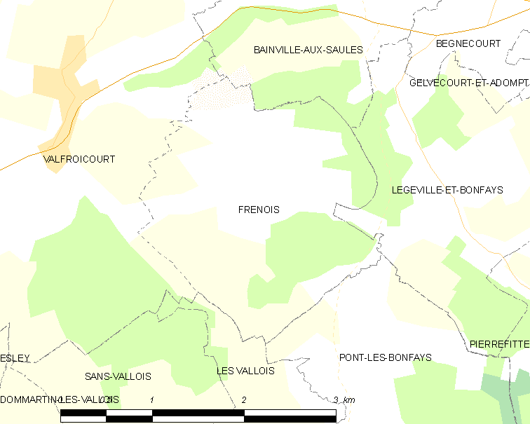 Map of French municipality Frénois